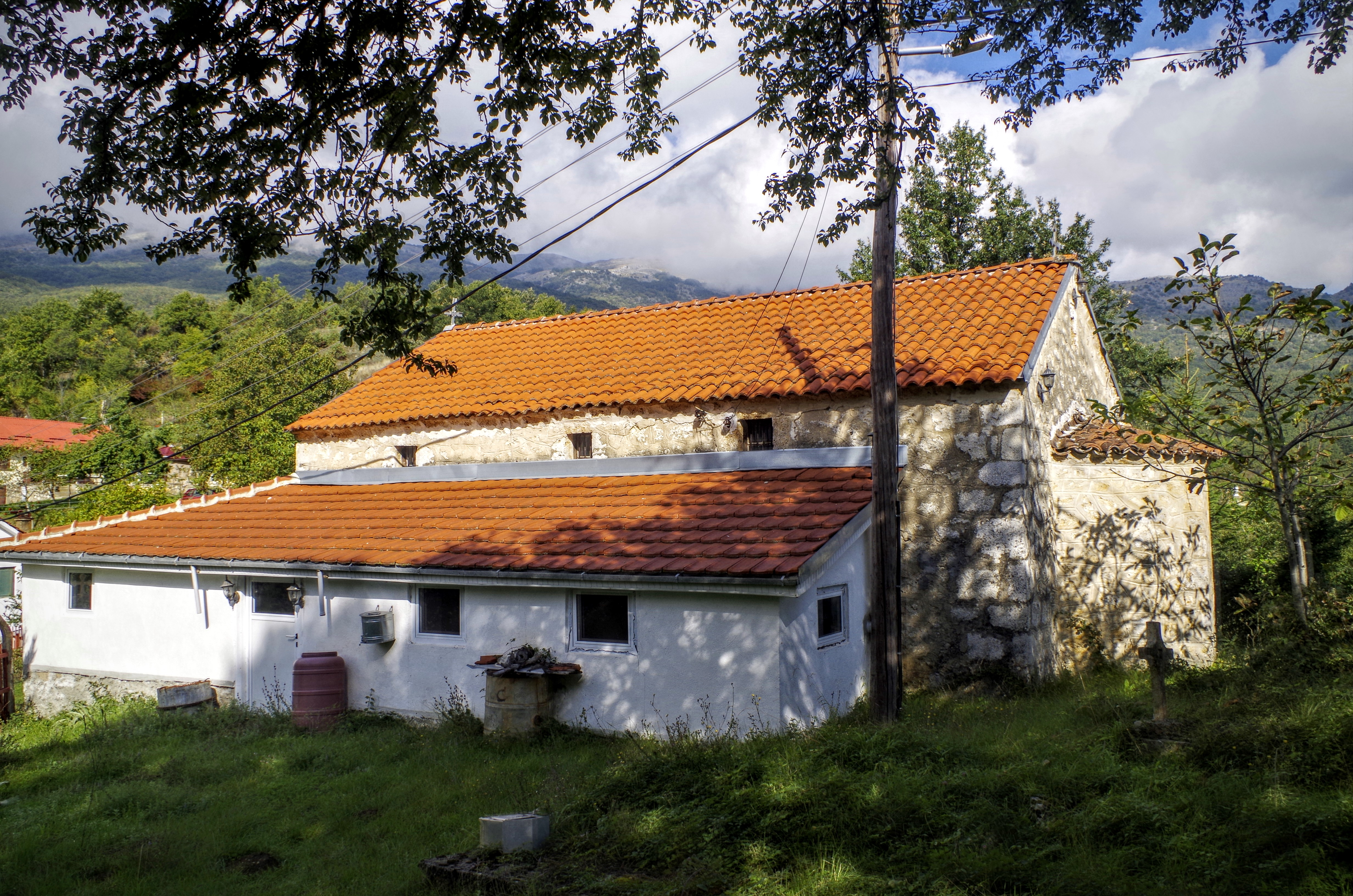 View of St. Nicholas Church in the village Leskoec, Resen